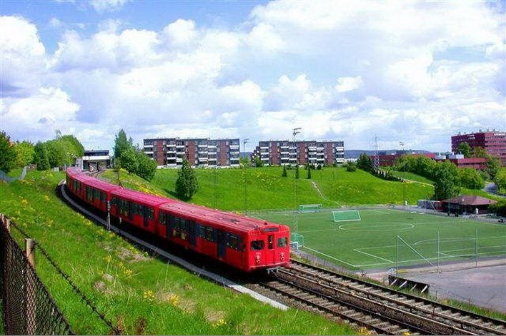 T1000 train of the Grorud Line of the Oslo Metro passing Linderud towards Vollebekk.